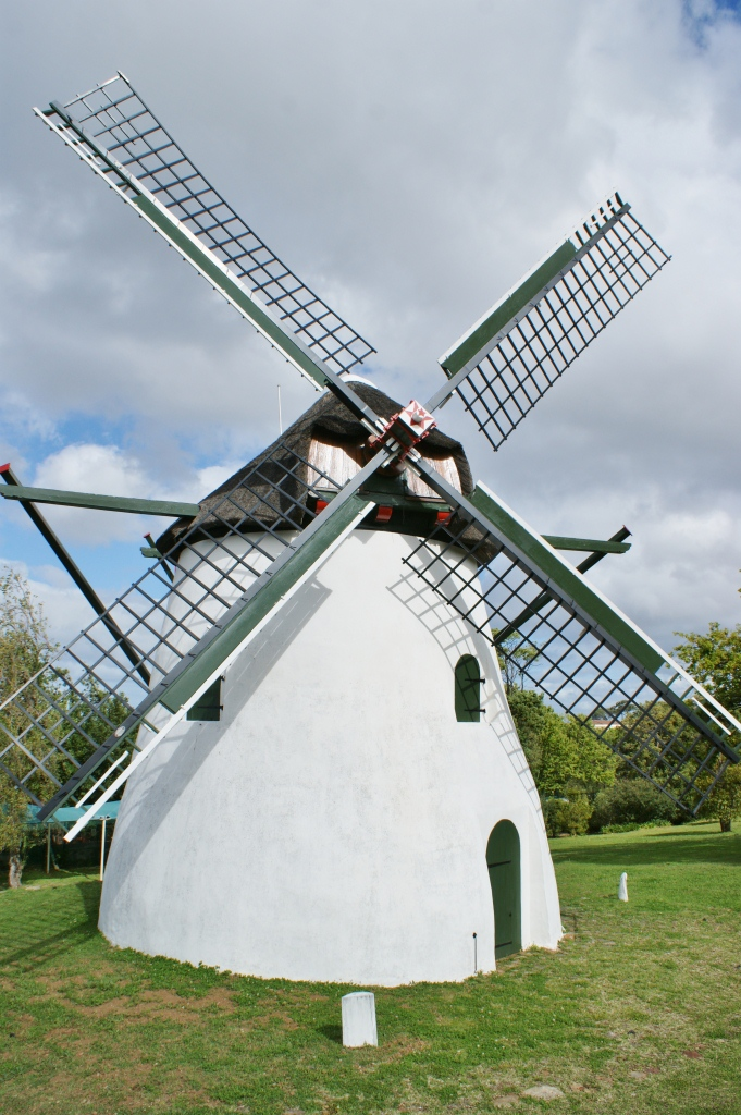 This media shows a South African Protected Site with SAHRA file reference 9/2/111/0064/4.